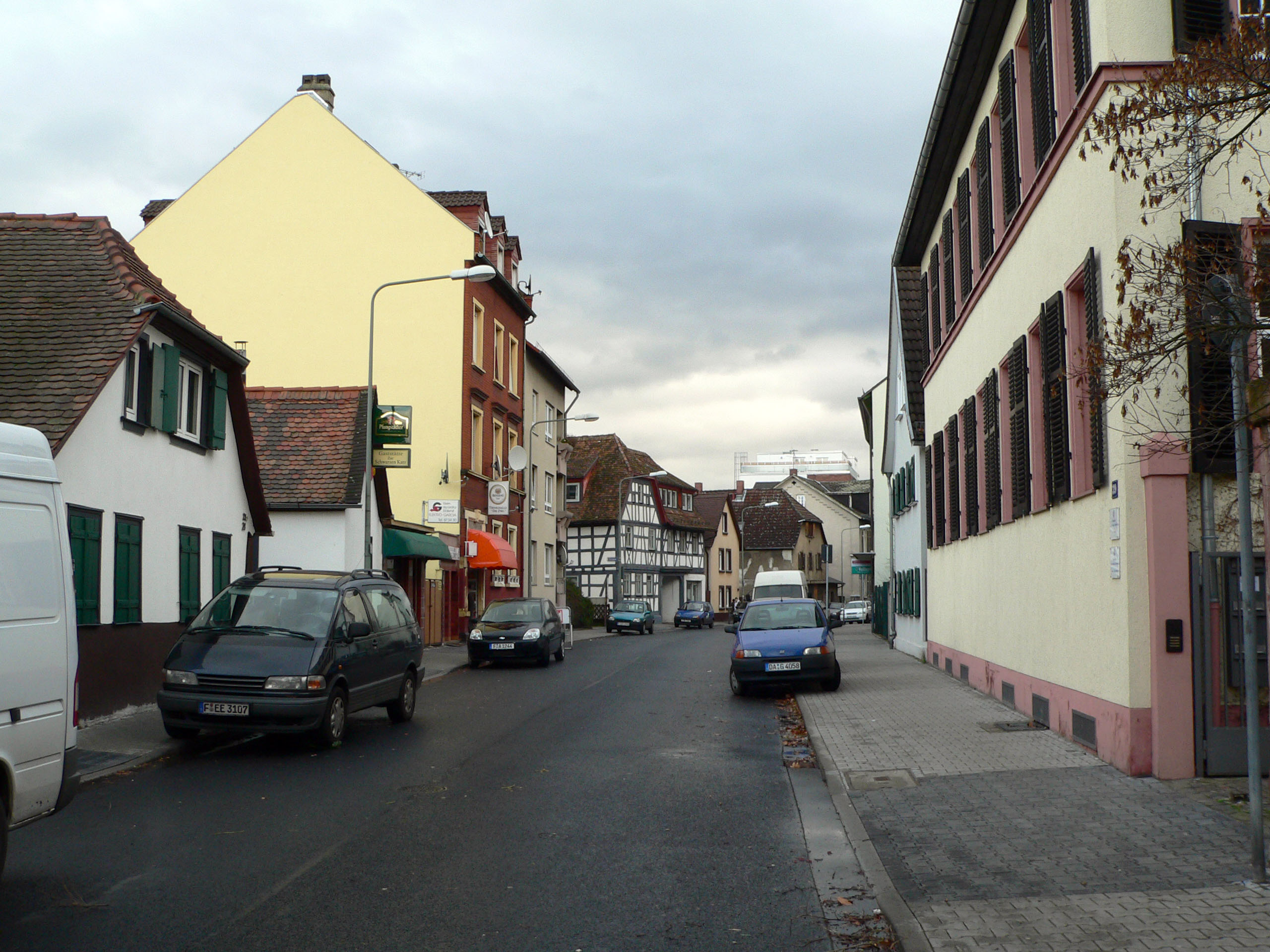 Frankfurt-Niederrad, Kelsterbacher Straße